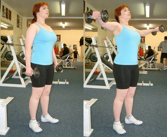 Thanks go to the model, Emily.